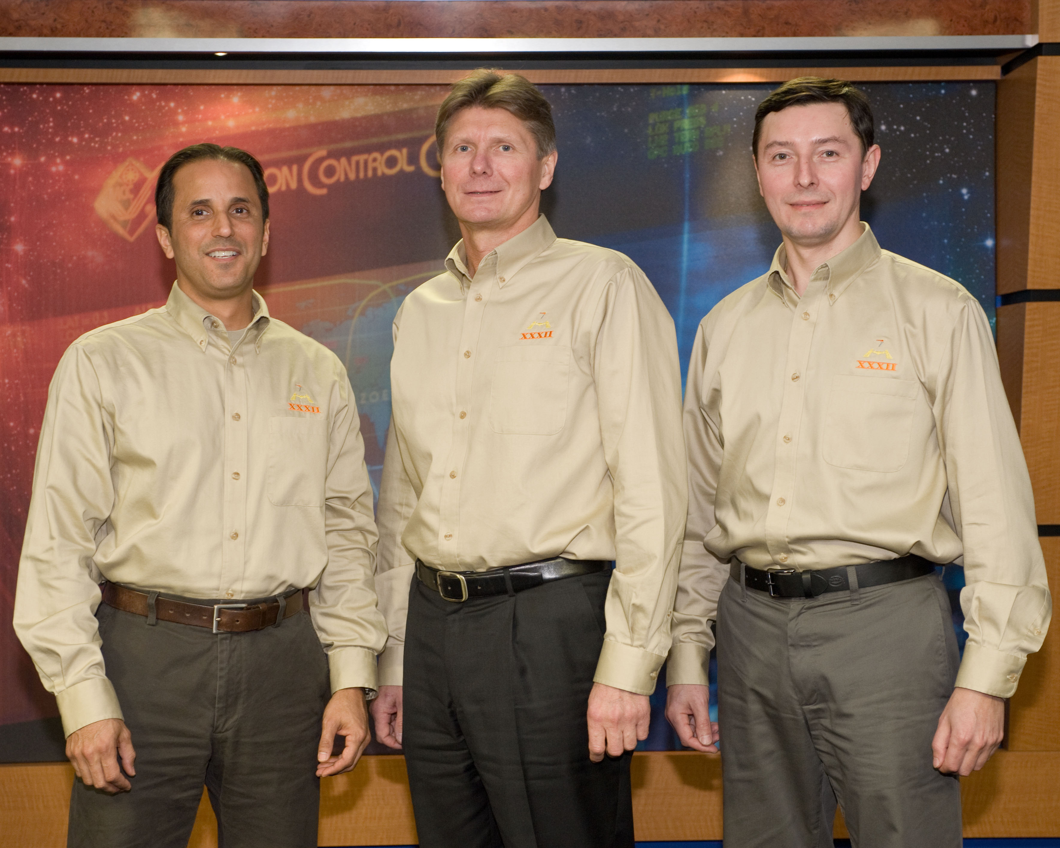 Russian cosmonaut Gennady Padalka (center), Expedition 31 flight engineer and Expedition 32 commander; along with NASA astronaut Joe Acaba (left) and Russian cosmonaut Sergei Revin, both Expedition 31/32 flight engineers, pose for a portrait following an Expedition 31/32 preflight press conference at NASA's Johnson Space Center.